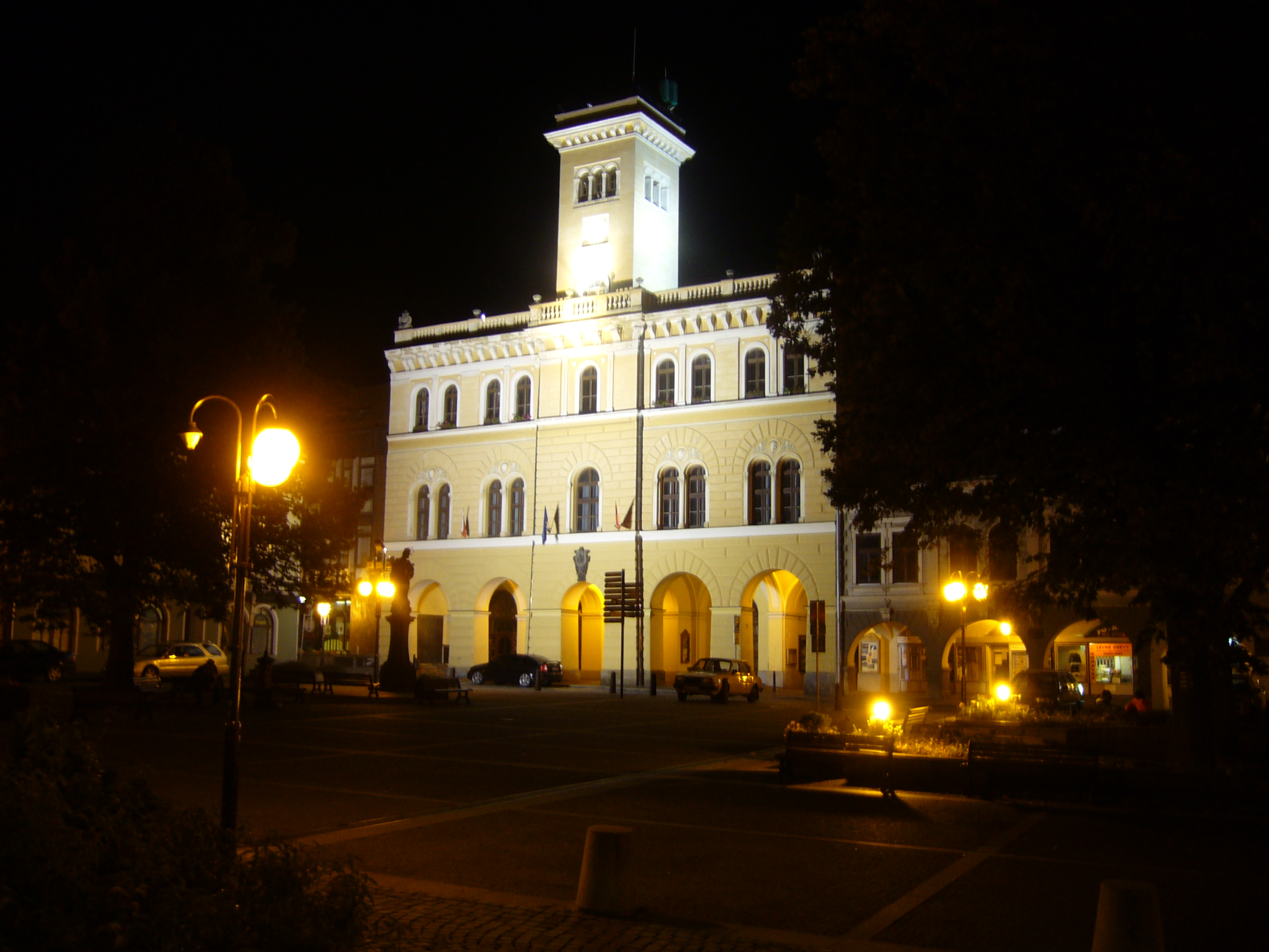 Night wiev of the Old Town Hall in Frenstat-Moravia